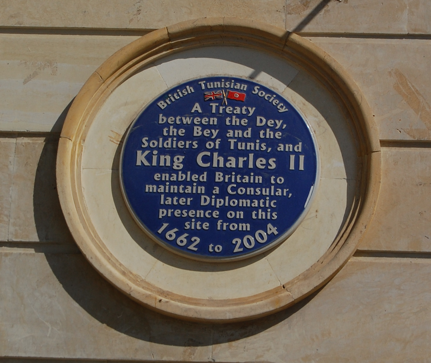 A blue plaque in Place Beb Bhar, Tunis, Tunisia. The text, in English, reads "British Tunisian Society - A Treaty between the Dey, the Bey, and the Soldiers of Tunis, and King Charles II enabled Britain to maintain a Consular, later Diplomatic presence on this site from 1662 to 2004"